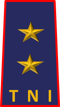 Air Vice Marshal rank insignia that used on daily uniforms of Indonesian Air Force (holder of command)